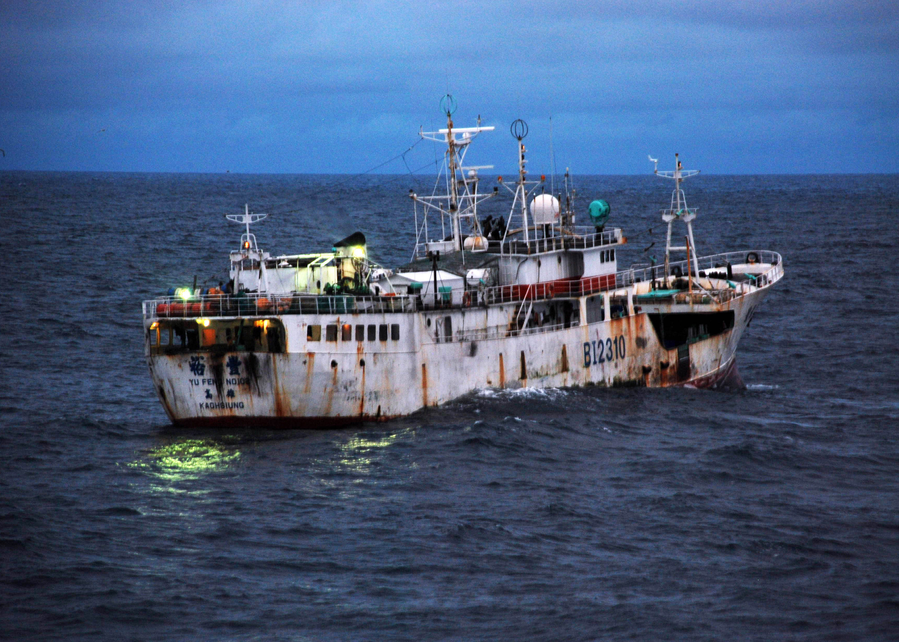 Yu Feng, a Taiwanese-flagged fishing vessel suspected of illegal fishing activity, moves through the water before being boarded by crewmembers from U.S. Coast Guard Cutter Legare and representatives from Sierra Leone's Armed Forces Maritime Wing, Fisheries ministry and Office of National Security, Aug. 17. Legare, homeported in Portsmouth, Va., is currently on a three-month deployment as part of Africa Partnership Station. APS is an international maritime safety and security initiative led by Commander, U.S. Naval Forces Europe-Africa/Commander, U.S. 6th Fleet.